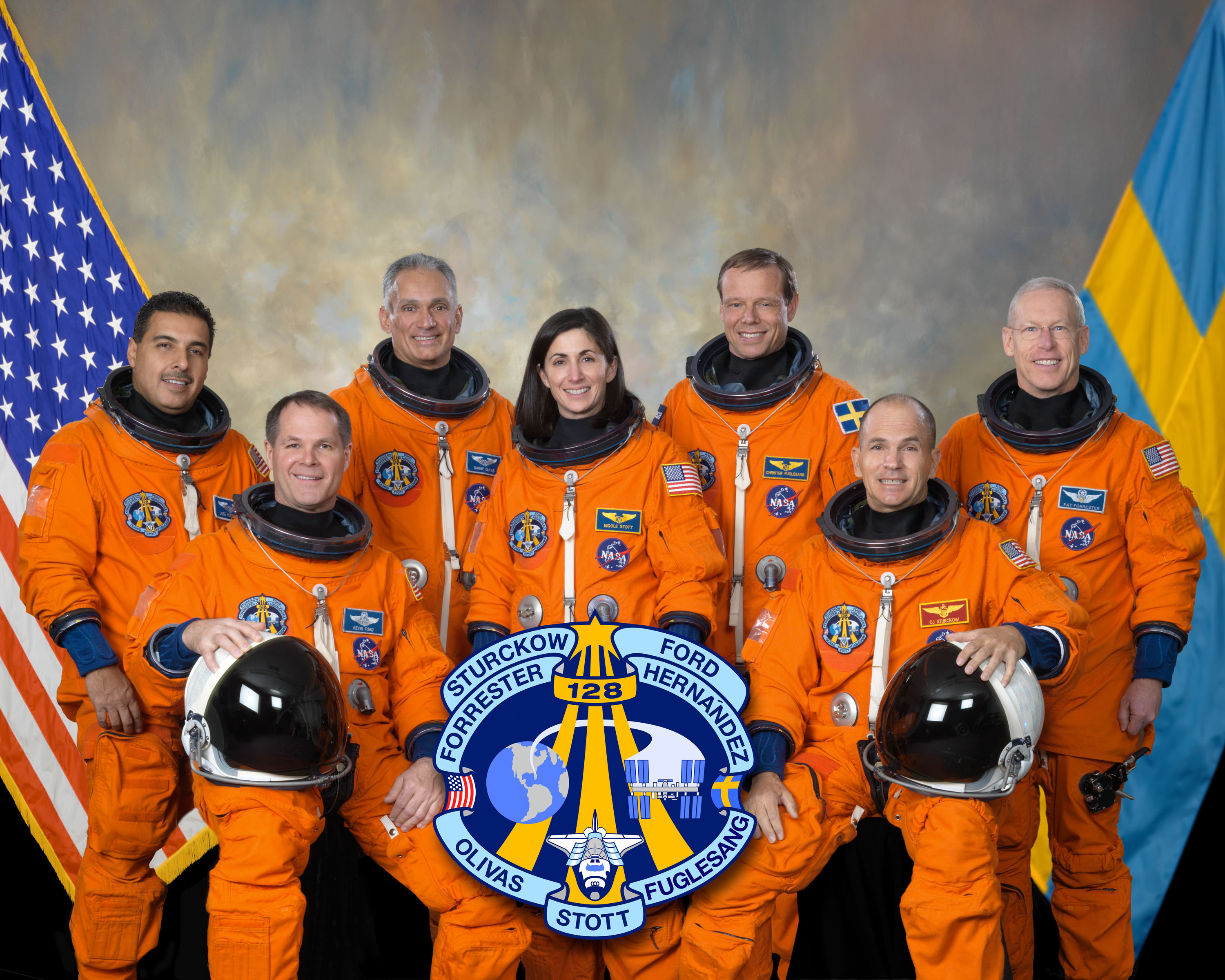 Attired in training versions of their shuttle launch and entry suits, these seven astronauts take a break from training to pose for the STS-128 crew portrait. Seated are NASA astronauts Rick Sturckow (right), commander; and Kevin Ford, pilot. From the left (standing) are astronauts Jose Hernandez, John "Danny" Olivas, Nicole Stott, European Space Agency's Christer Fuglesang and Patrick Forrester, all mission specialists. Stott is scheduled to join Expedition 20 as flight engineer after launching to the International Space Station on STS-128.